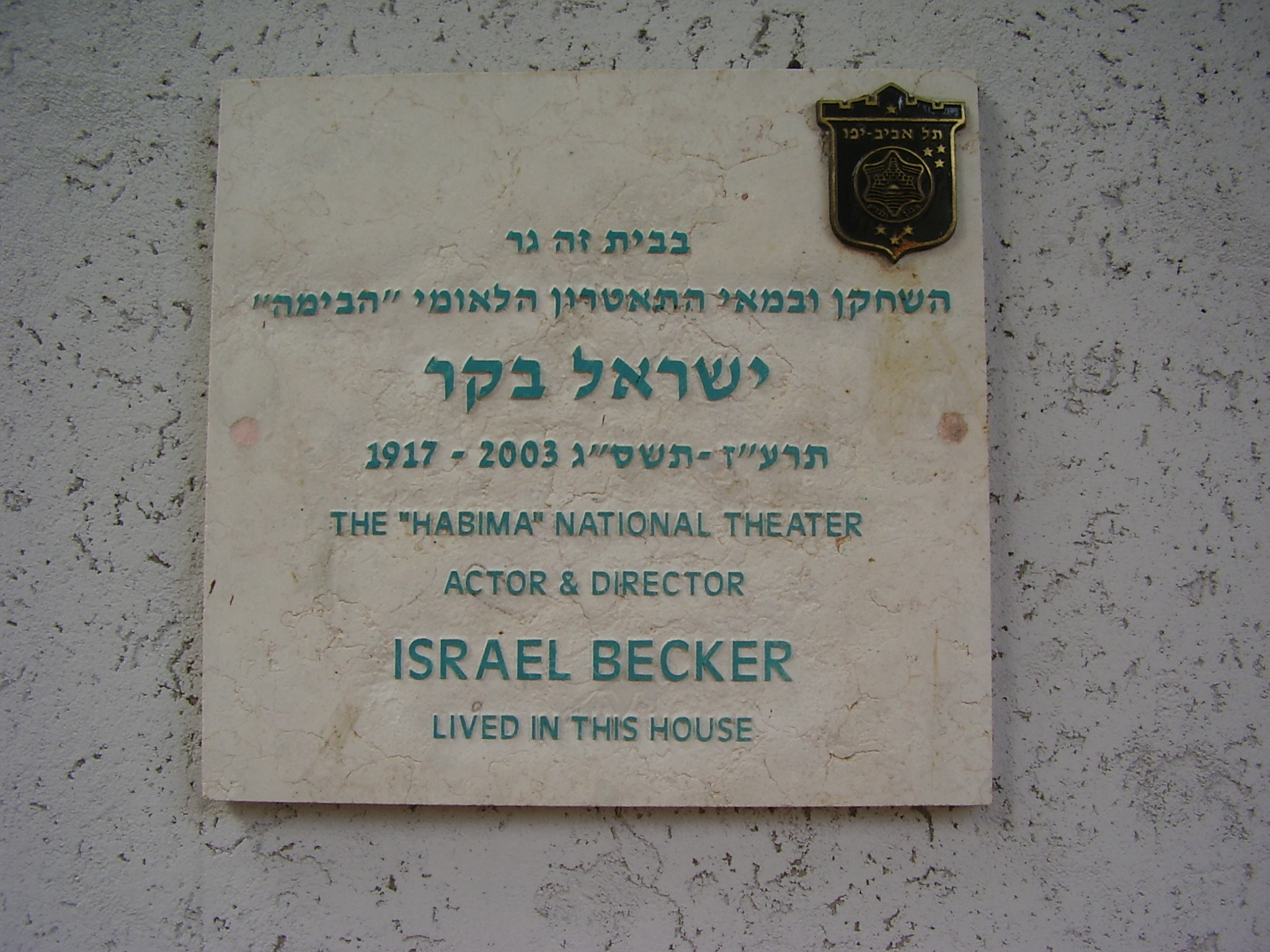 memorial plaque on the actor israel becker in tel aviv לוחית זיכרון על ביתו של השחקן ישראל בקר ברח' הנביאים 4 בתל אביב